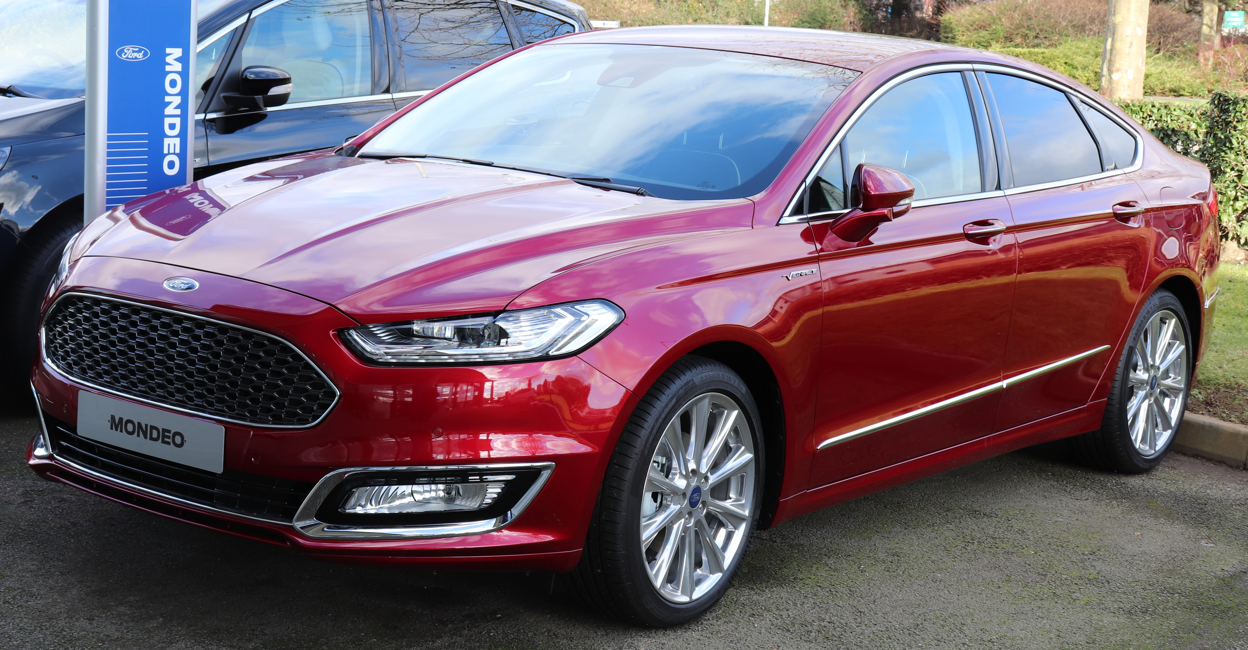 2017 Ford Mondeo Vignale Front Taken in Leamington Spa